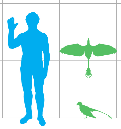 Size of the avialan theropod Jeholornis prima, specimen IVPP V13274, compared with a human. Scale bar = 1 meter. Feathering based on referred specimens of J. prima and J. palmapenis.